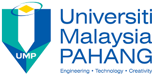 pahang